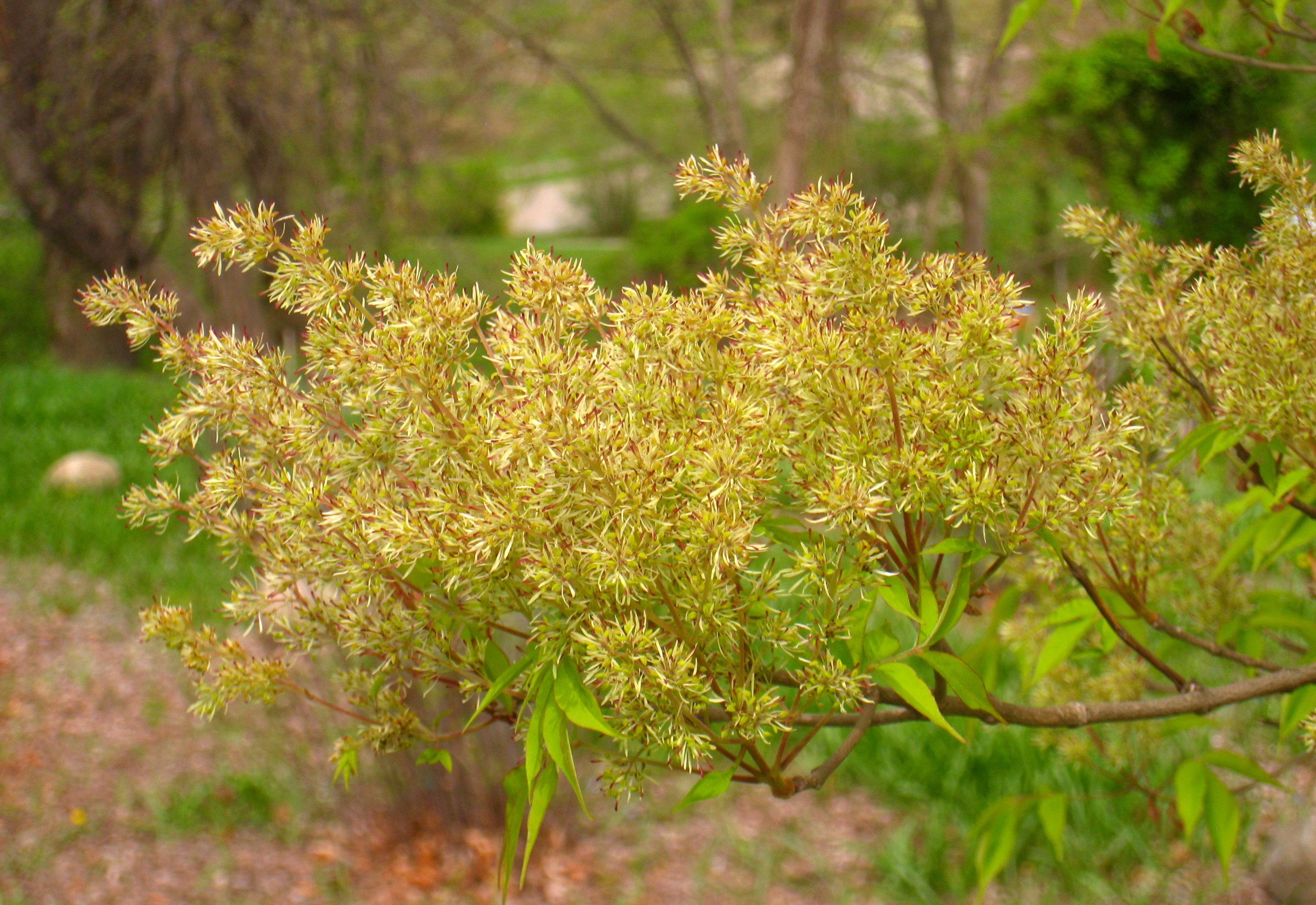 Fraxinus lanuginosa, Arnold Arboretum, Jamaica Plain, Boston, Massachusetts, USA.